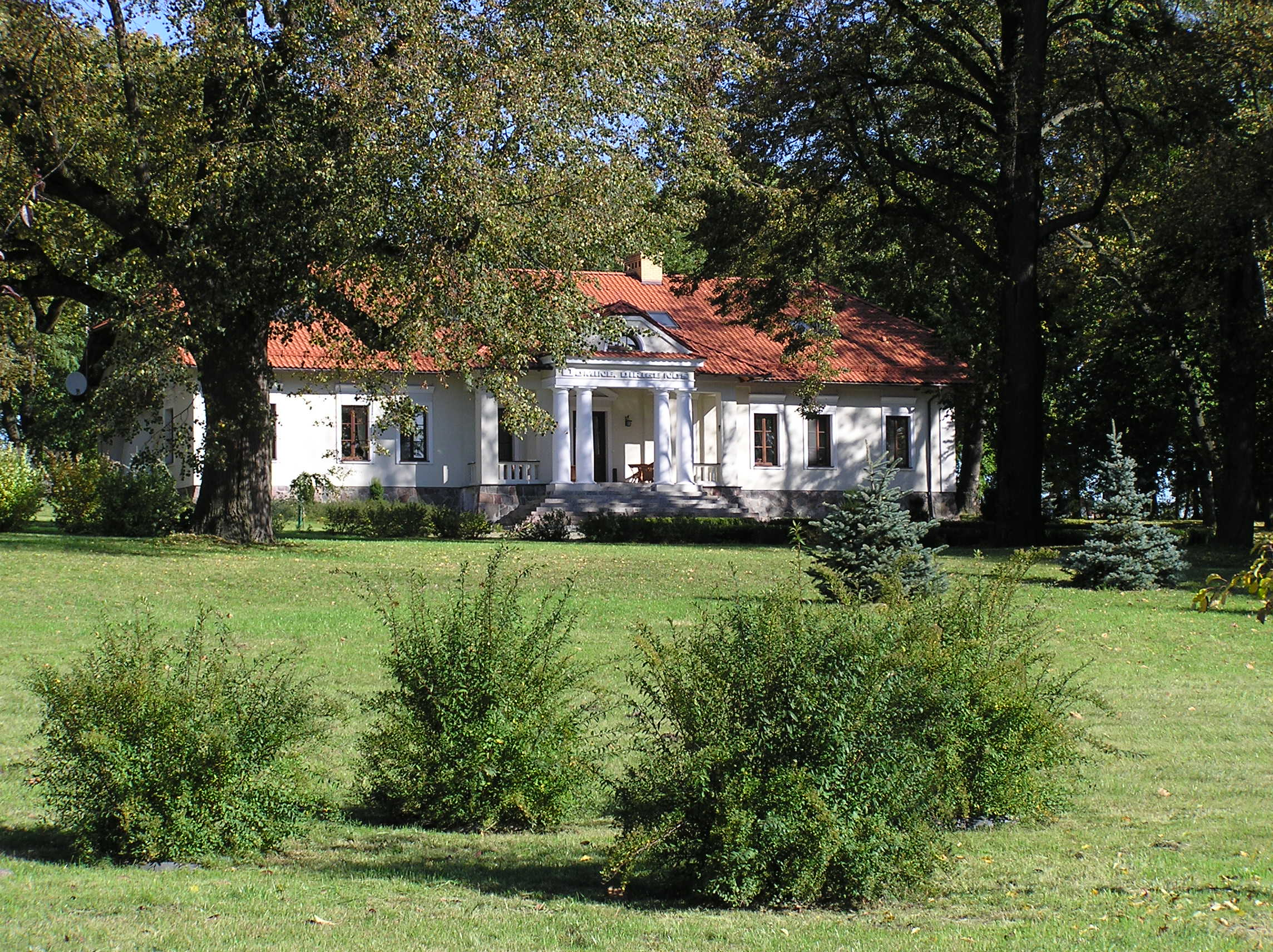 The brick manor of the Waliński family in Sokola Góra (Poland), XIX century.